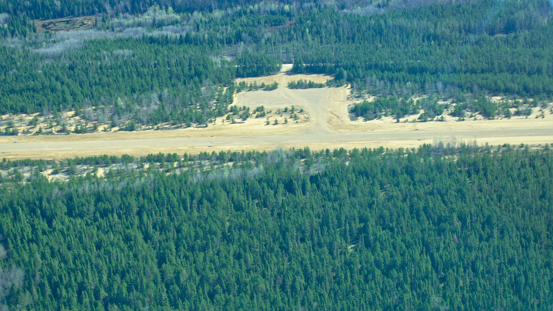 view on St-Michel-des-saint airport (CSM5)